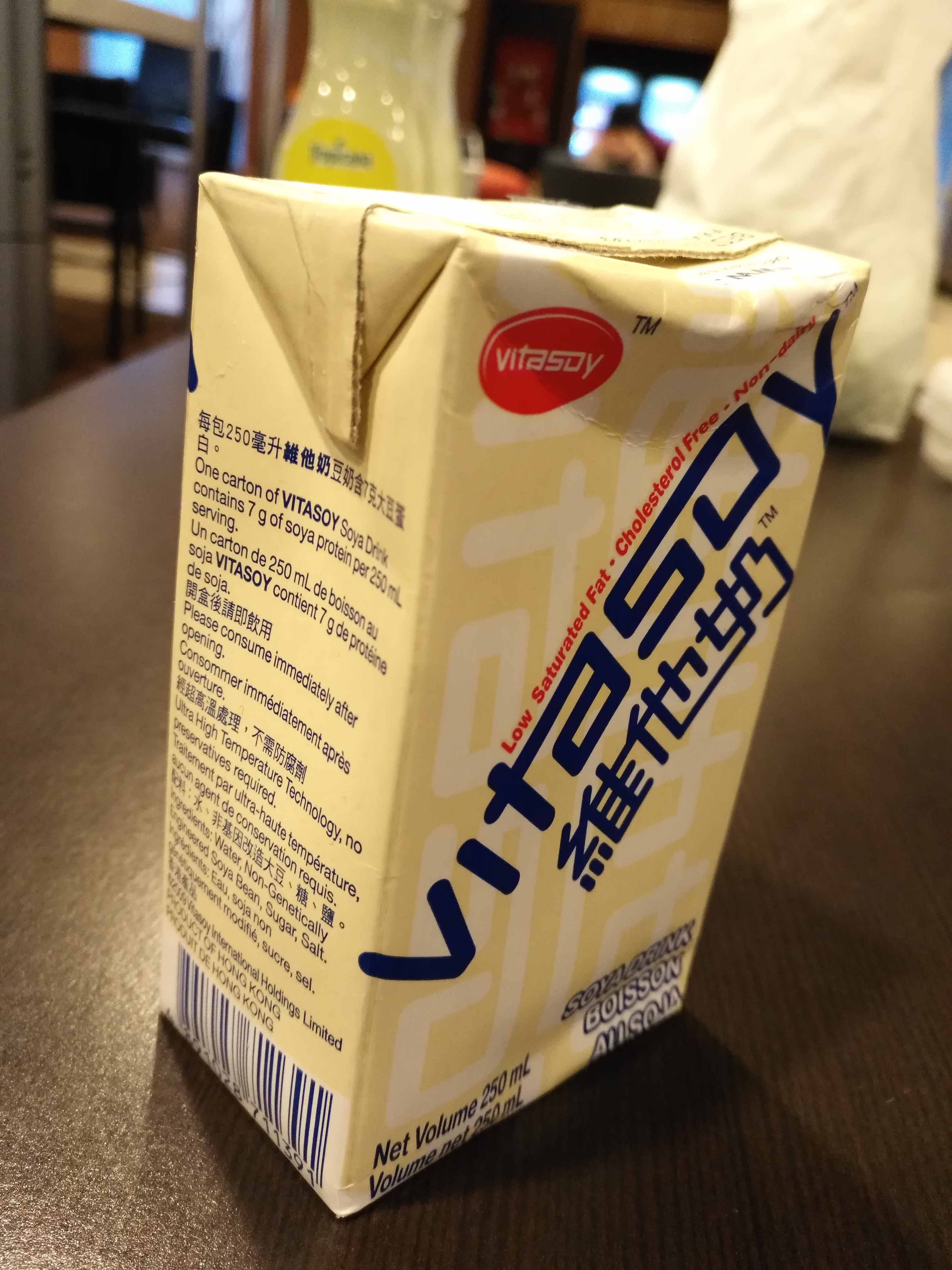 A box of Vitasoy Original Flavor, which sold in Canada. Stand by me.